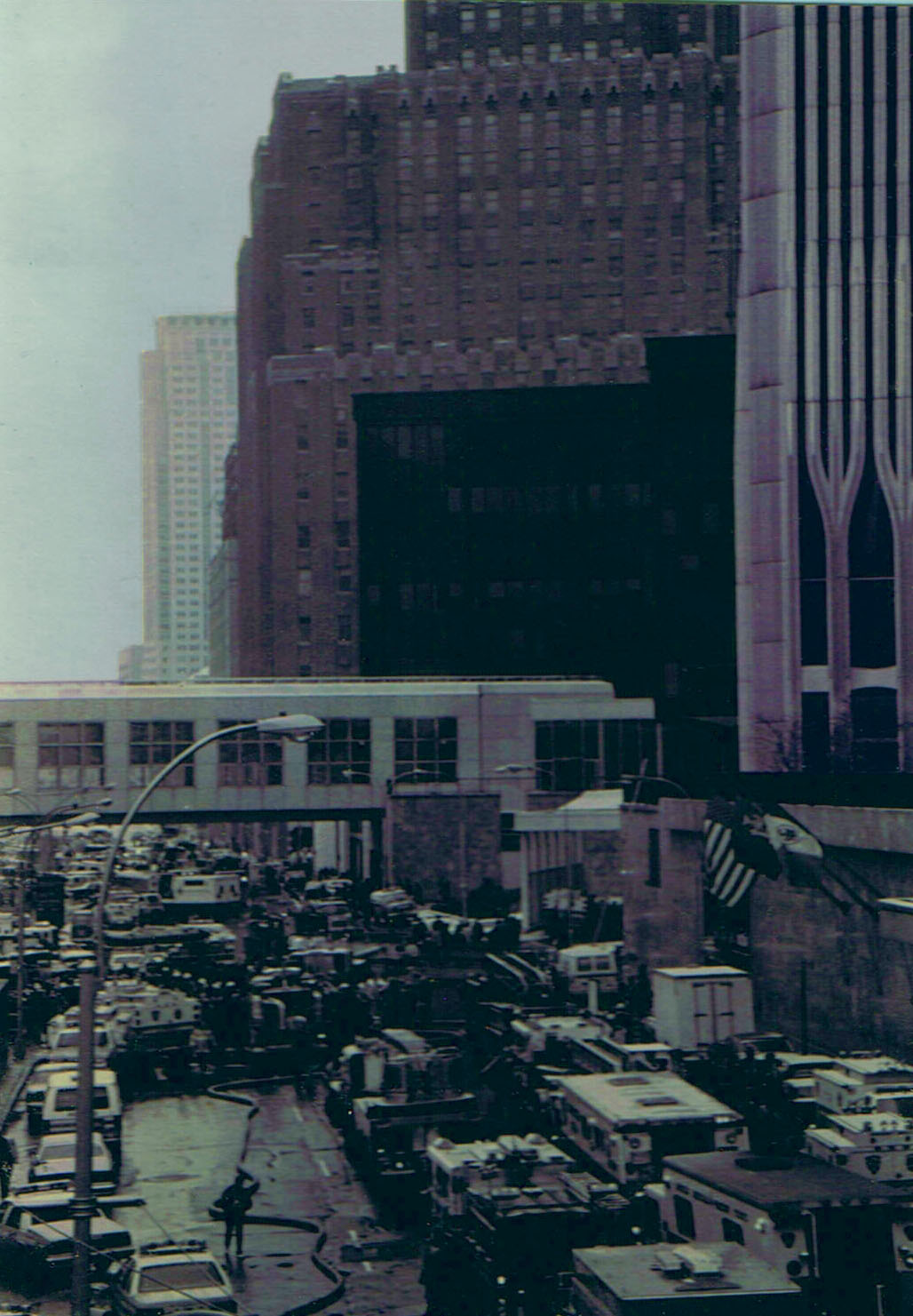 Procession of emergency vehicles at the World Trade Center bombing on February 26, 1993. The Tower is on the far right of the frame. Photo taken by Eric Ascalon from an adjacent pedestrian walkway.